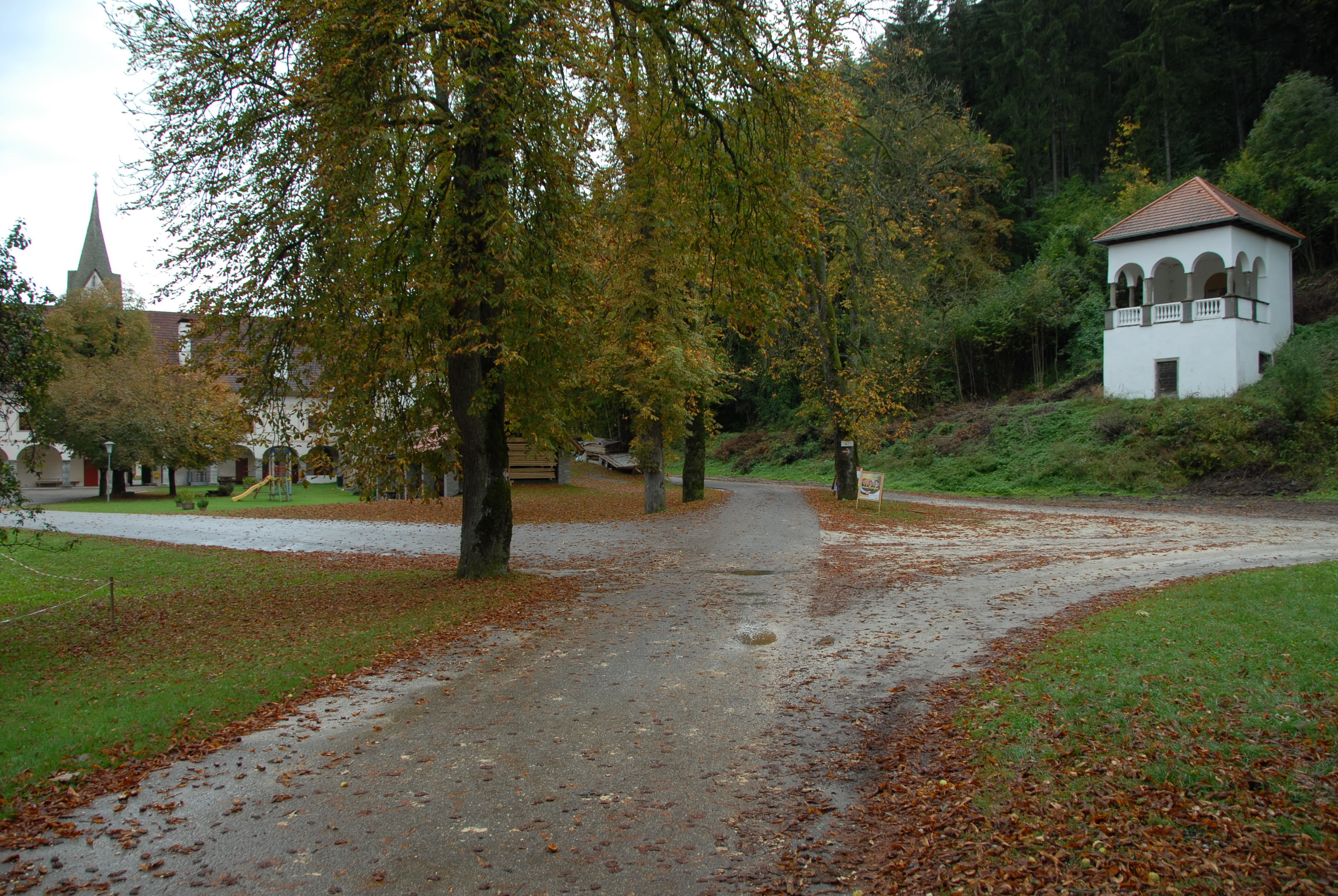 Crossroads in the grove of monastery Griffen, market town Griffen, district Völkermarkt, Carinthia, Austria, EU